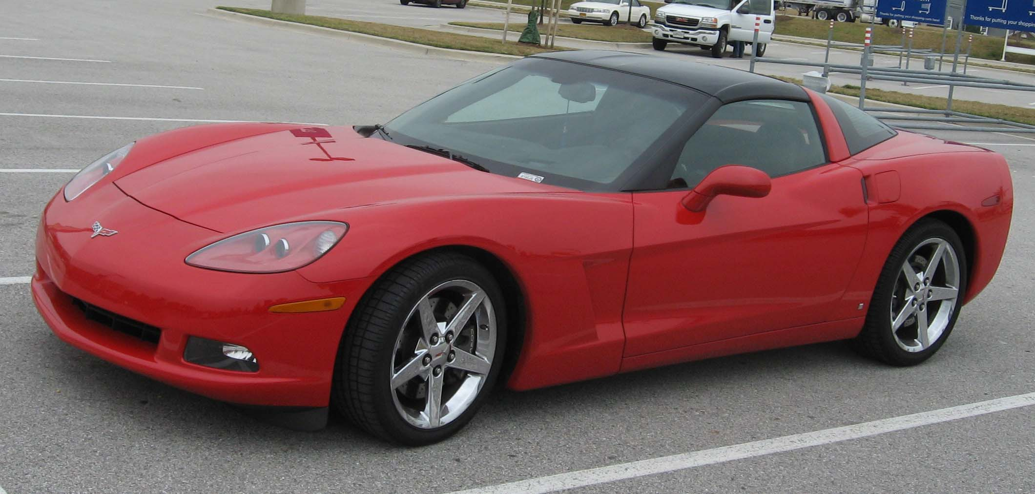 2005-2007 Chevrolet Corvette photographed in USA.